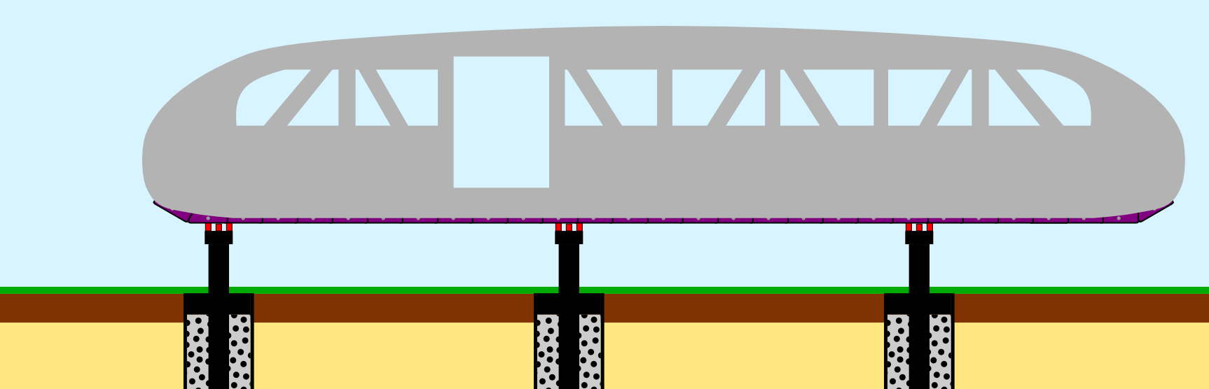 Schematic view of the pillar-track regional people-mover